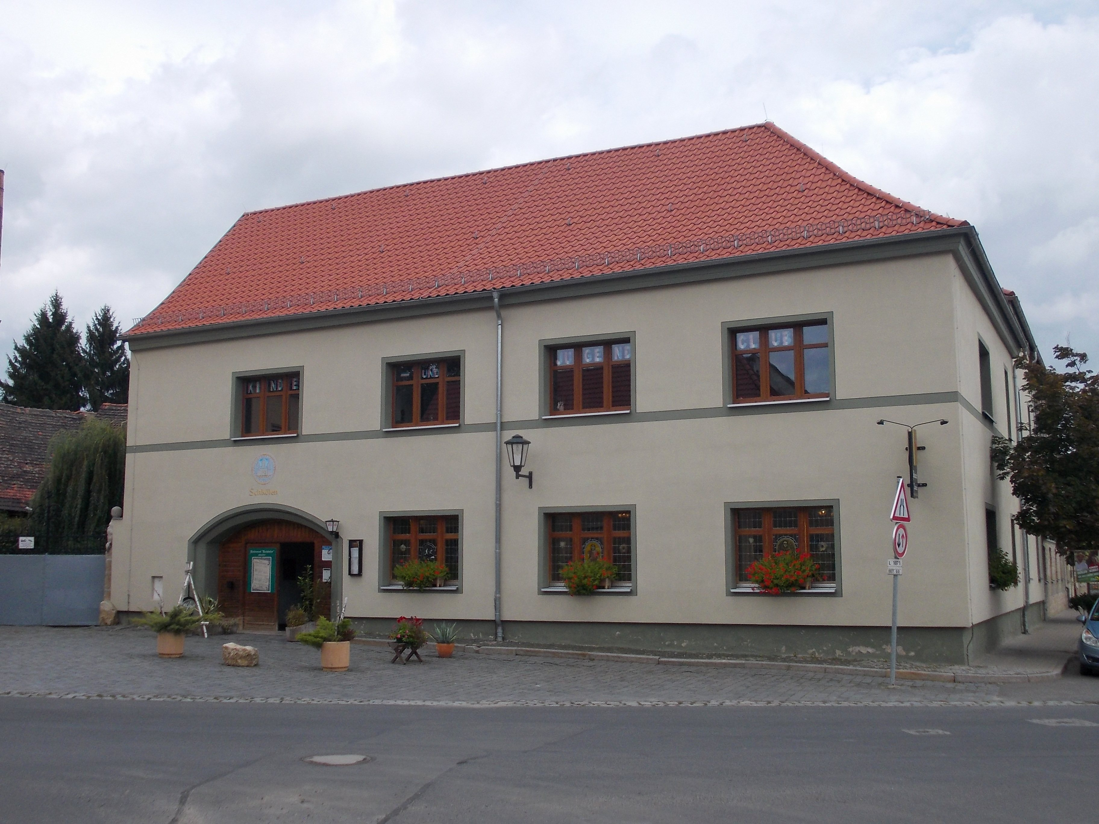 Ratskeller restaurant in Schkölen (district: Saale-Holzland-Kreis, Thuringia)